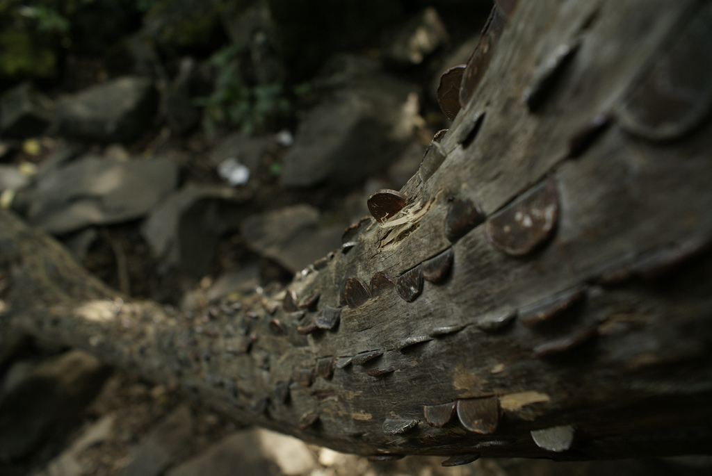 coins hammered into a wish tree at High Force waterfall near Middleton-in-Teesdale, Tees Valley, England., 54°39′1″N 2°11′15″W